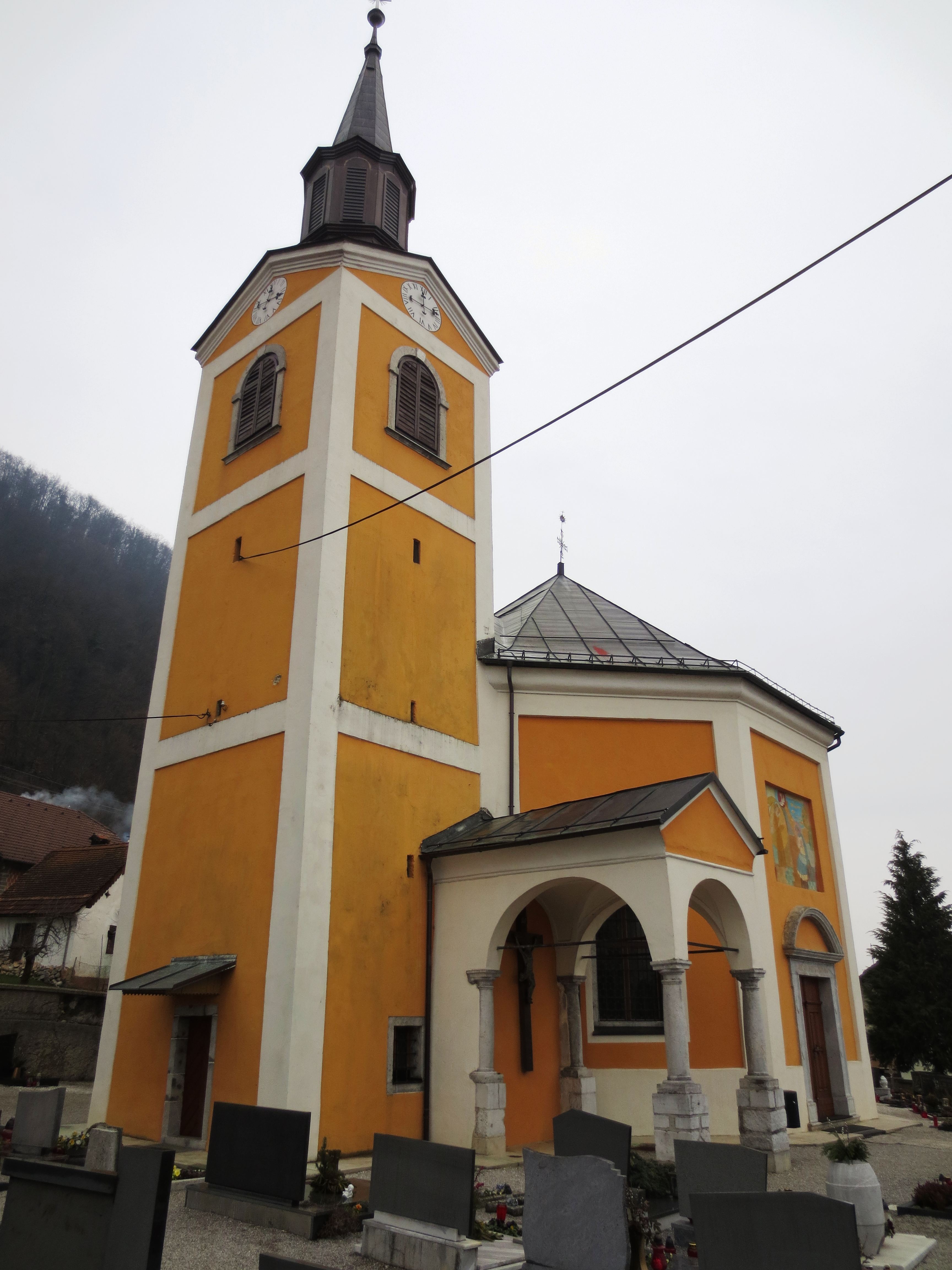 Straža church Assumption of the Mary Mother of God